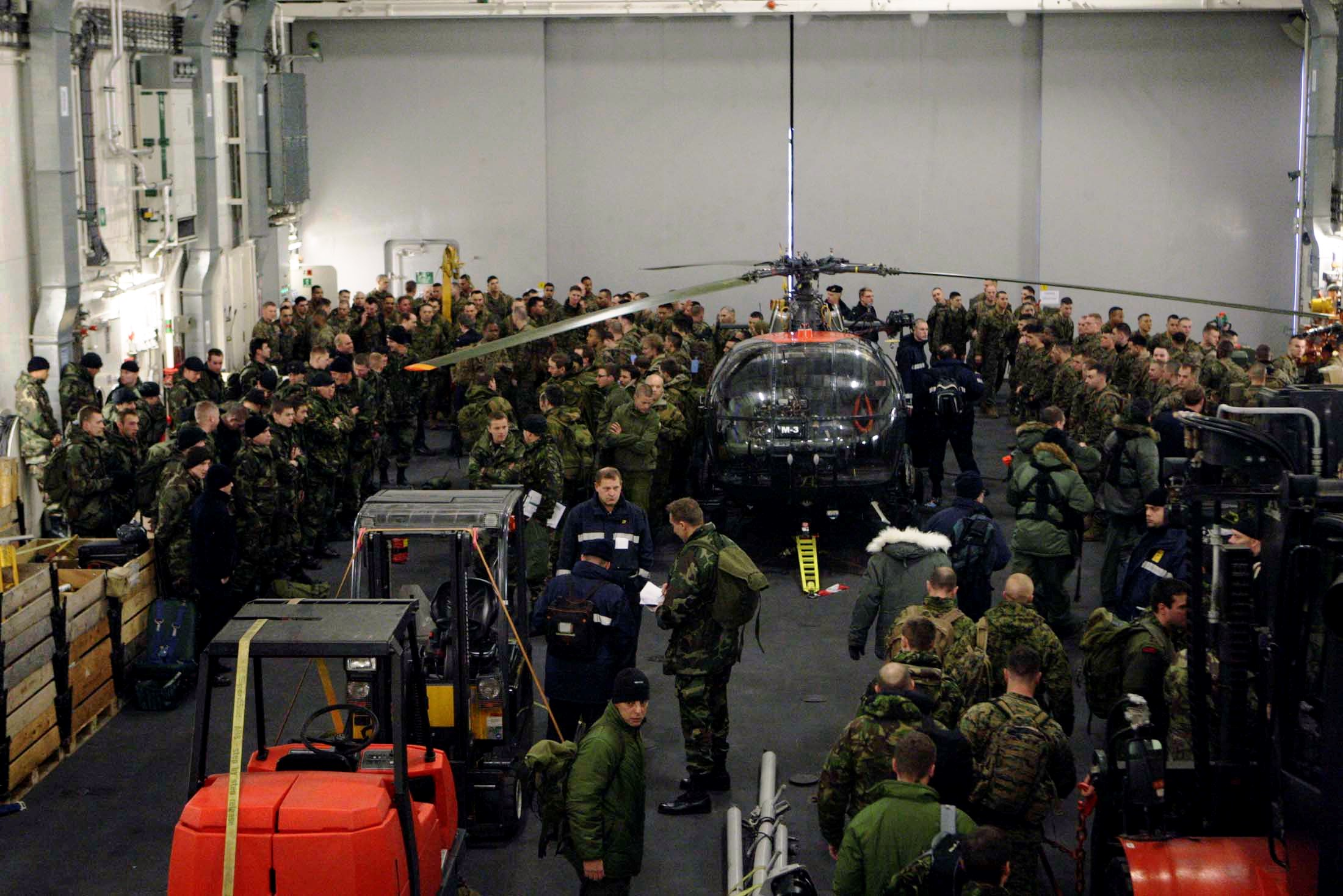 Military personnel aboard HNLMS Johan De Witt (L 801) in Norway February 24th, 2010, during exercise Cold Response 2010.